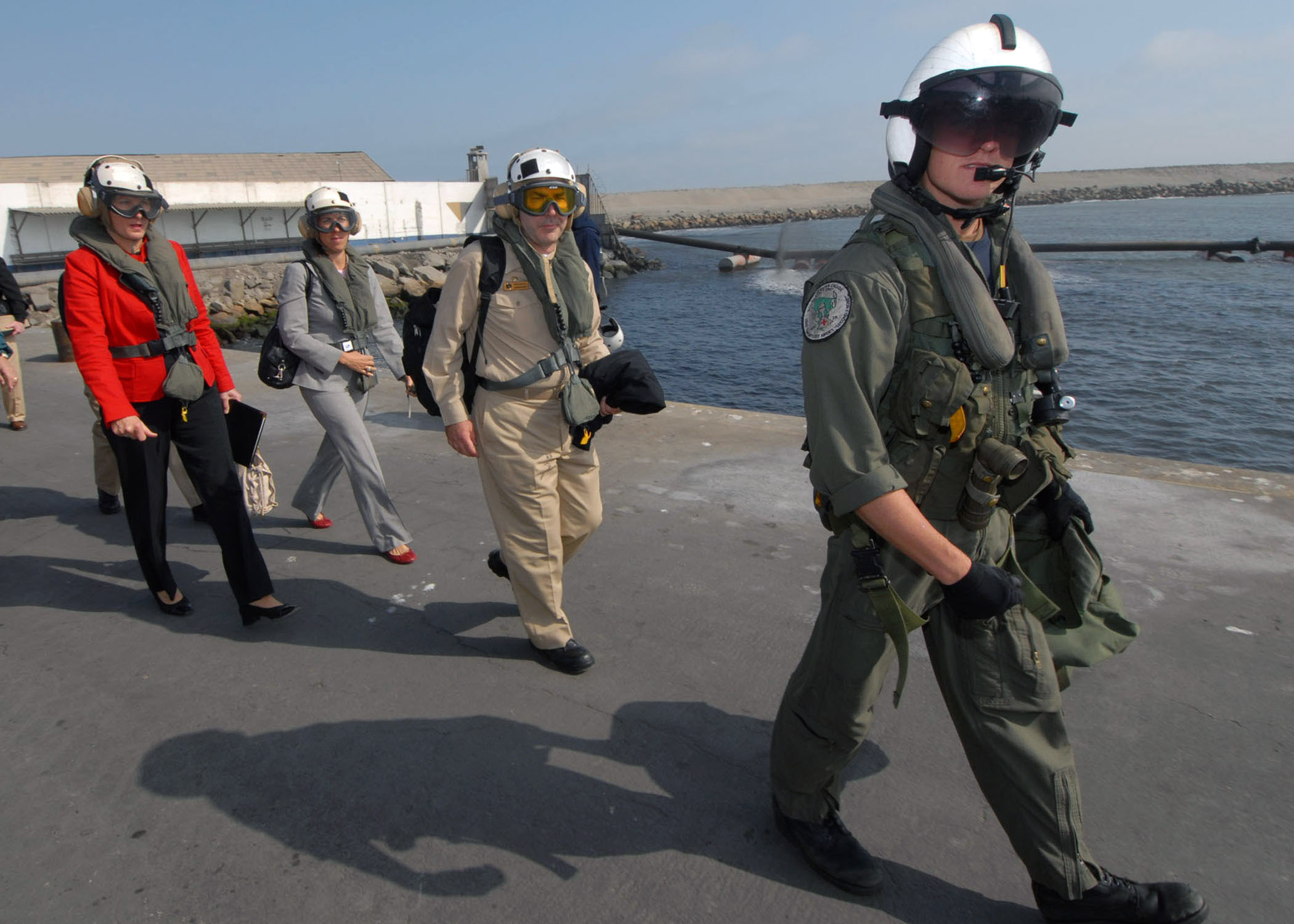 TRUJILLO, Peru (Aug. 8, 2007) - Under Secretary for Diplomacy and Public Affairs Karen Hughes (left) and the Mission Commander Capt. Bob Kapcio aboard the Military Sealift Command (MSC) hospital ship USNS Comfort (T-AH 20), are led by Aviation Warfare Systems Operator 3rd Class Eric Rockwell to a MH-60S helicopter belonging to Helicopter Sea Combat Squadron 28. Hughes visited Comfort and various medical site locations in Peru during Comfort's scheduled port visit to Salaverry, Peru. Comfort is on a four-month humanitarian deployment to Latin America and the Caribbean providing medical treatment to patients in a dozen countries. U.S. Navy photo by Mass Communication Specialist 2nd Class Joshua Karsten (RELEASED)